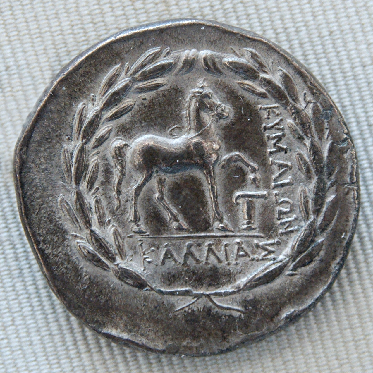 Silver tetradrachm of Cyme, Aeolis, ca. 160–145 BC; reverse: horse to the right with a vase.